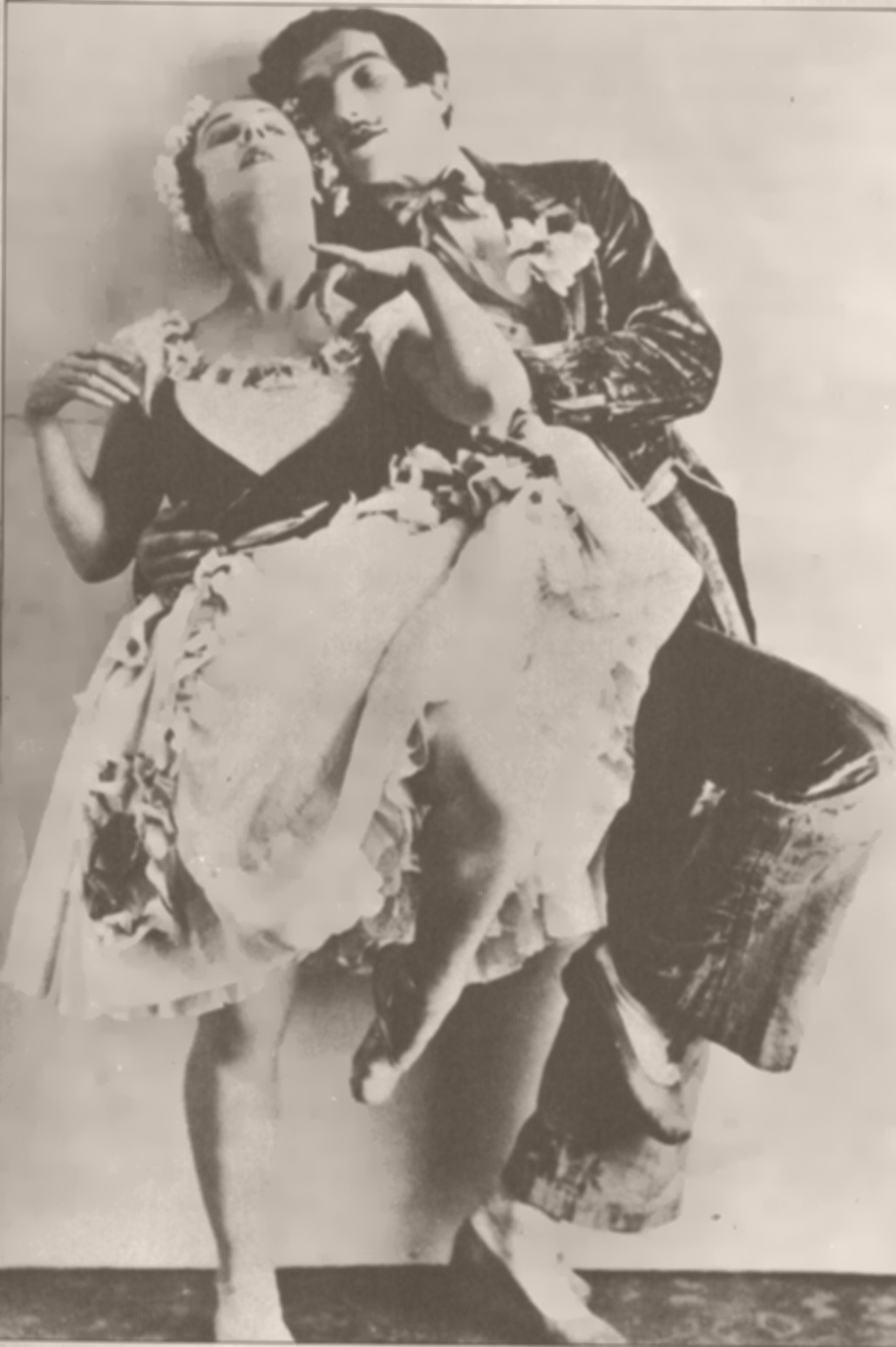 Russian ballerina Lydia Lopokova with her partner Leonid Massine